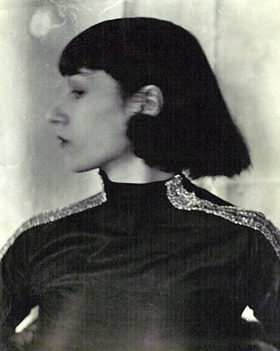 Vera Skoronel (May 28, 1906 – March 24, 1932), born Vera Laemmel, was a Swiss-born German dancer and choreographer. say 1922 note says "© German Dance Archive Cologne" but no photographer crediited